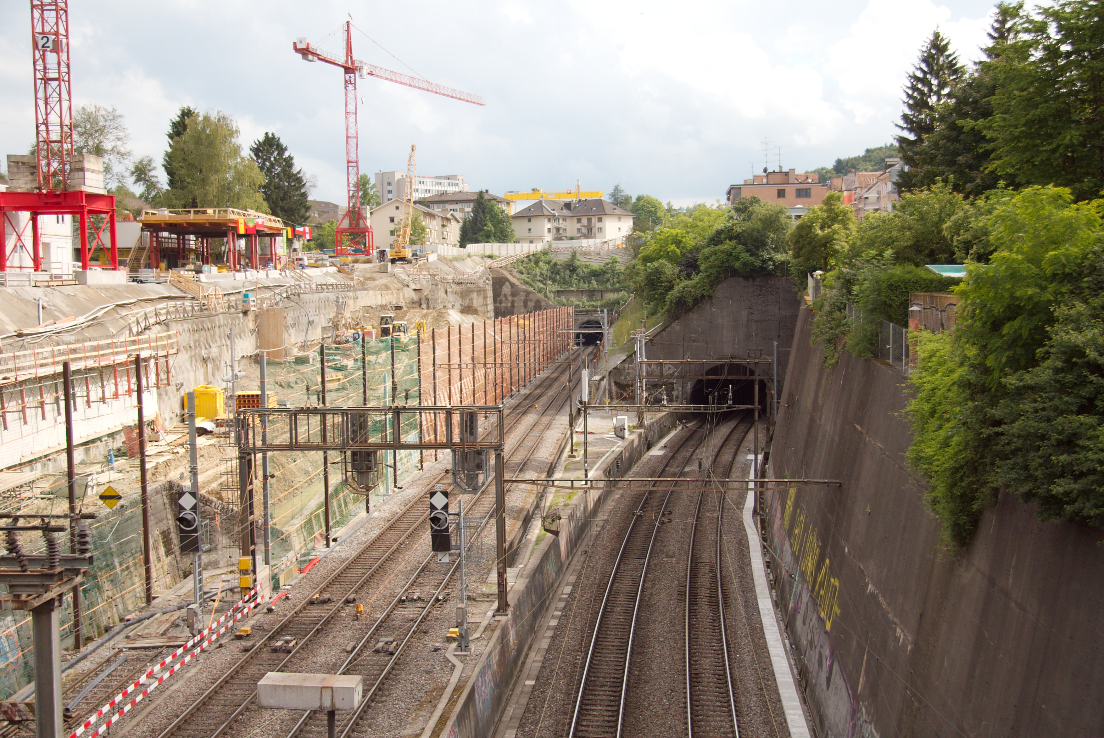 Tunnel portals at Oerlikon: to the left the Weinberg tunnel is under construction, in the middle is the Wipkingertunnel, right is the Käferberg tunnel